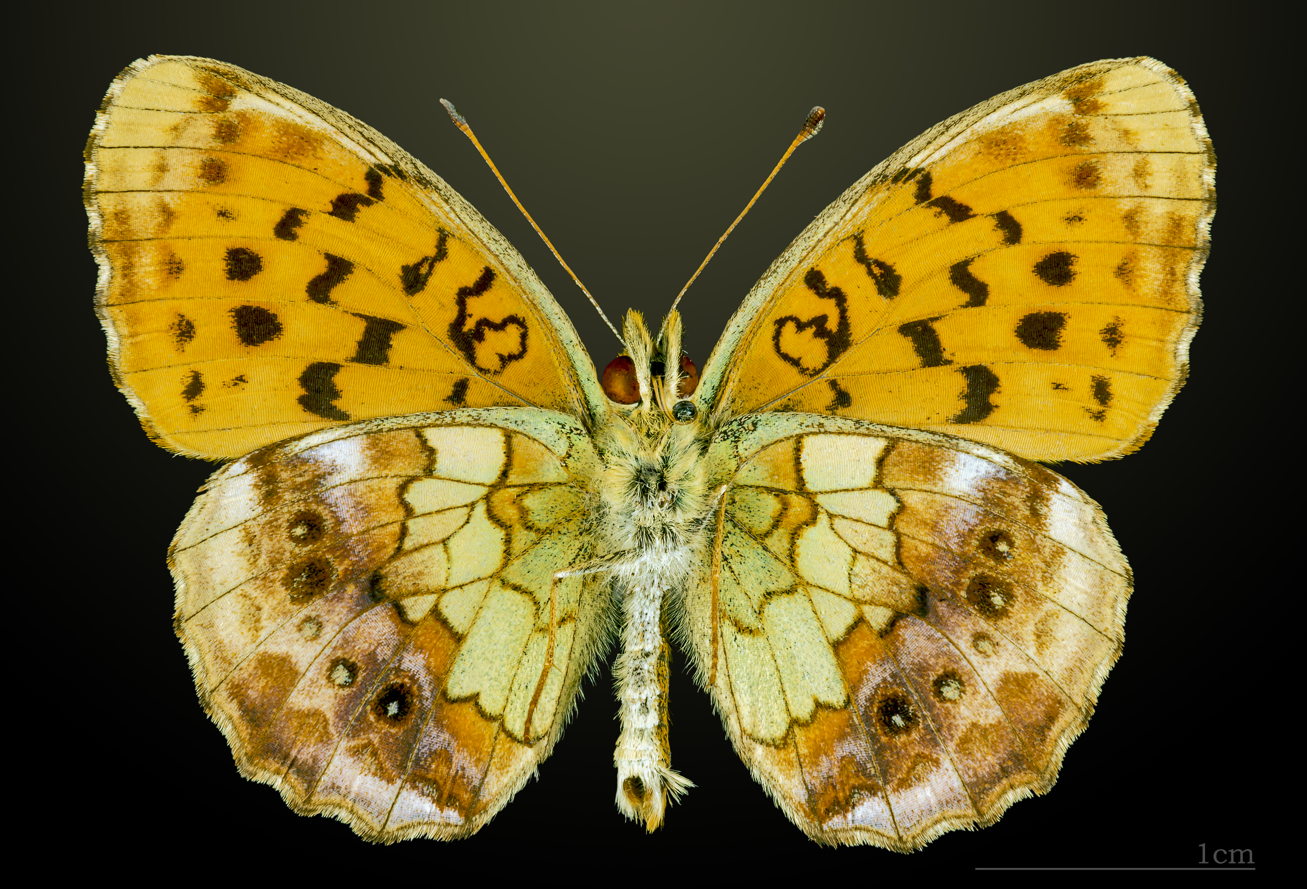 marbled fritillary - △ Ventral side Locality: Paleyrac, Buisson-de-Cadouin, Dordogne, France